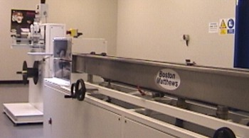 Co-Extrusion line manufacturing medical tubing